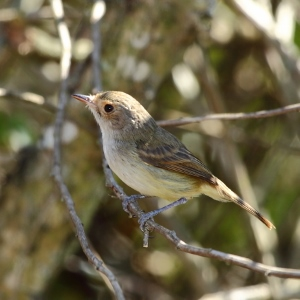 Tawny-crowned Pygmy-Tyrant at Dourado - SP - Brazil